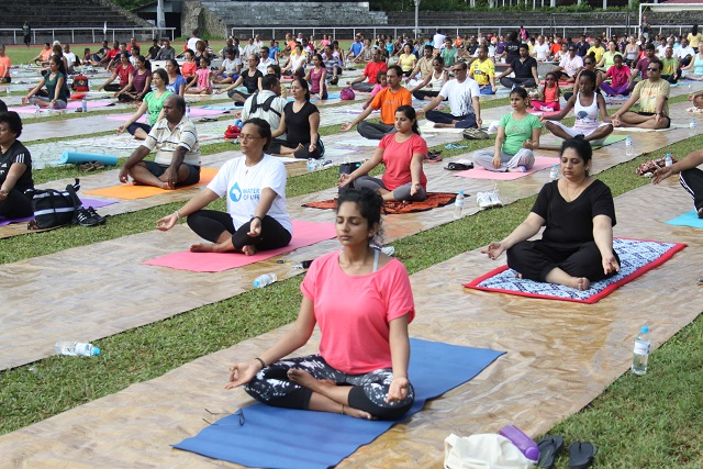 An estimated 500 people from the Seychelles participated in an open-air yoga session to celebrate the first International Day of Yoga.